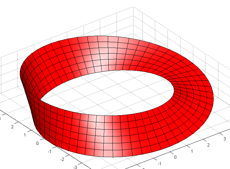 Mobius strip. color rad. Comparable with a Cylinder